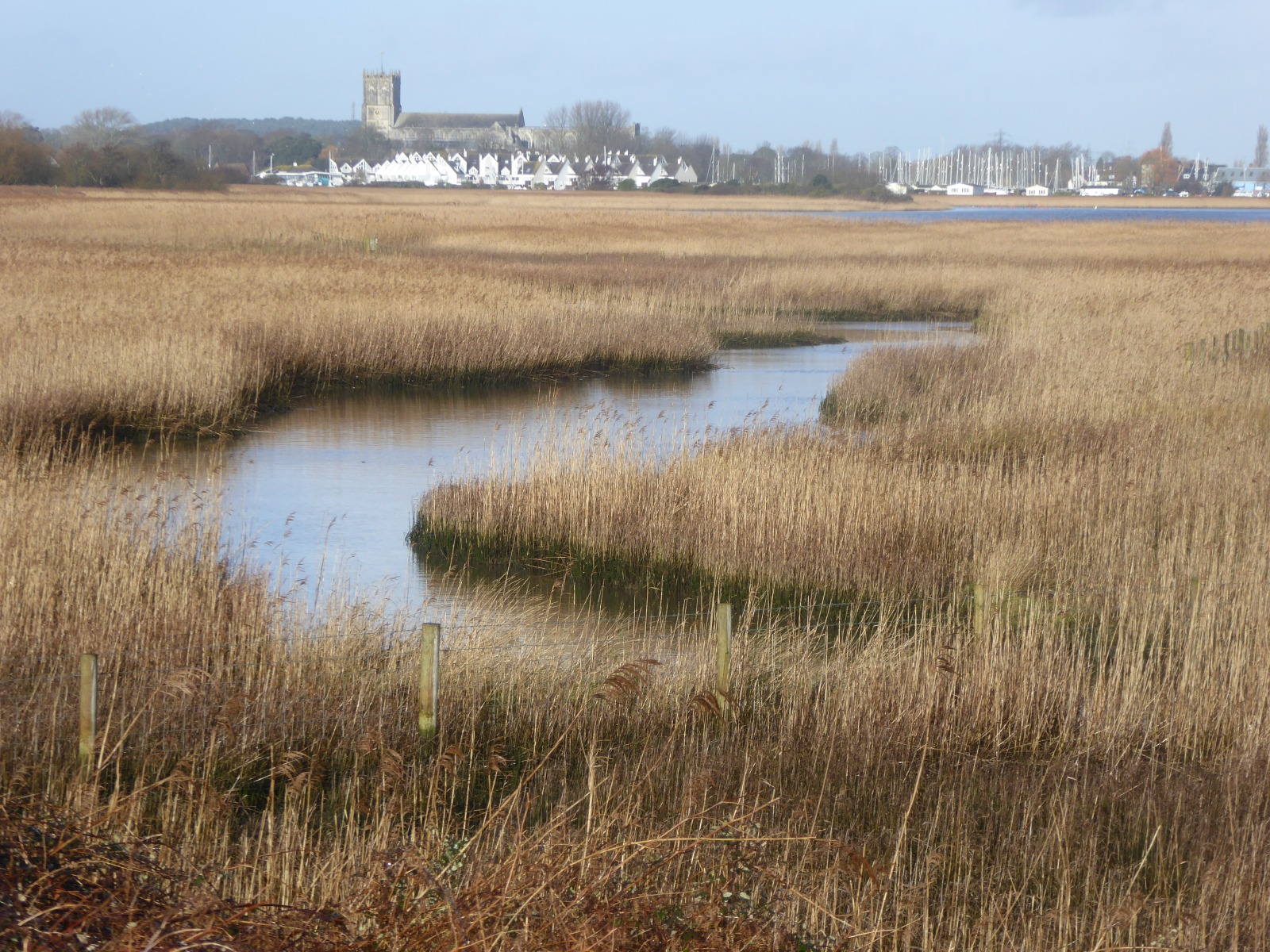 Reed beds in Wick Hams, part of Christchurch Harbour